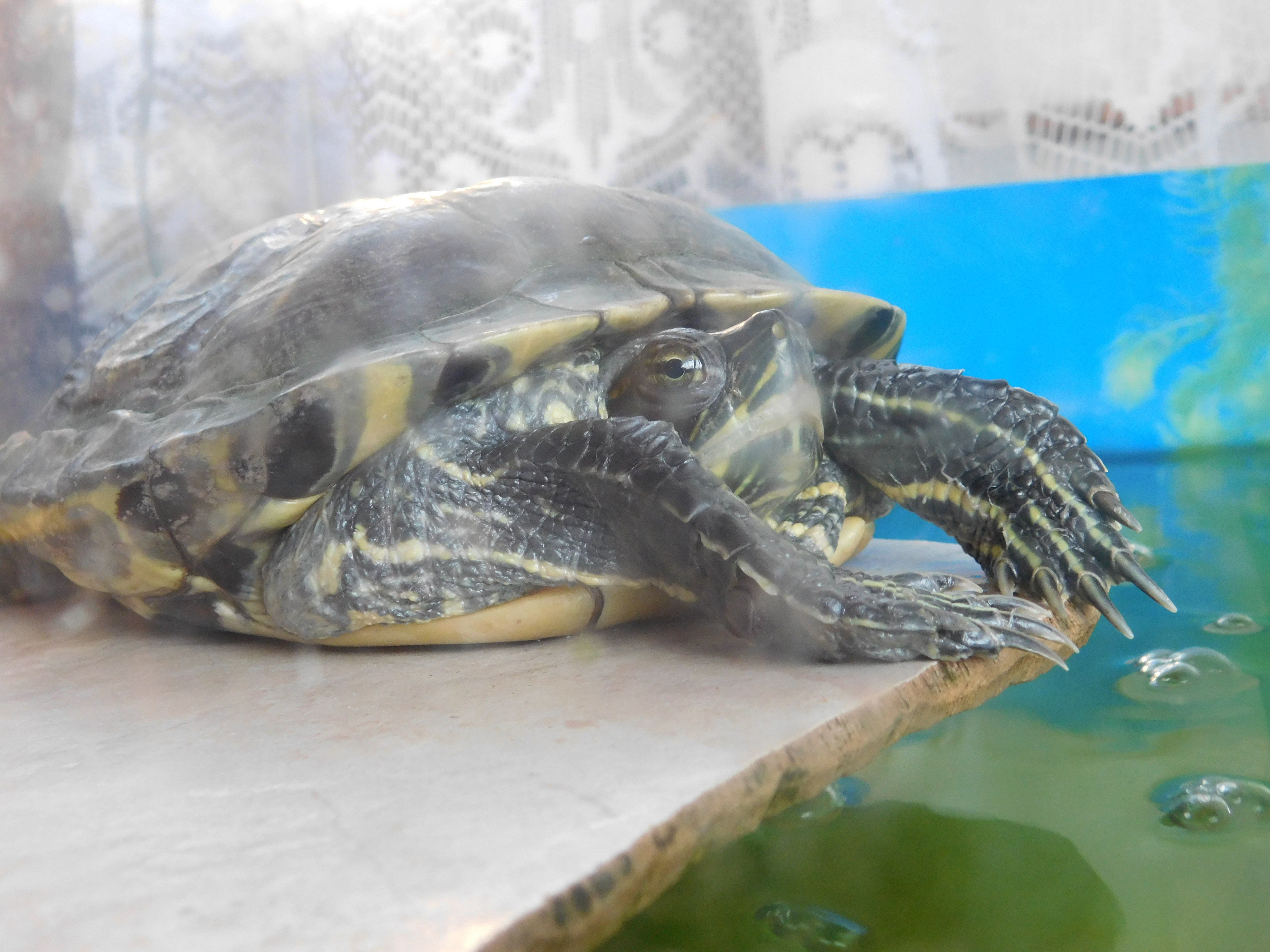 Red-eared slider (Trachemys scripta elegans) inside the aquarium